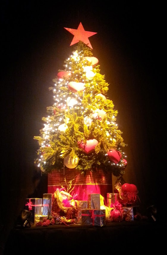 Christmas tree